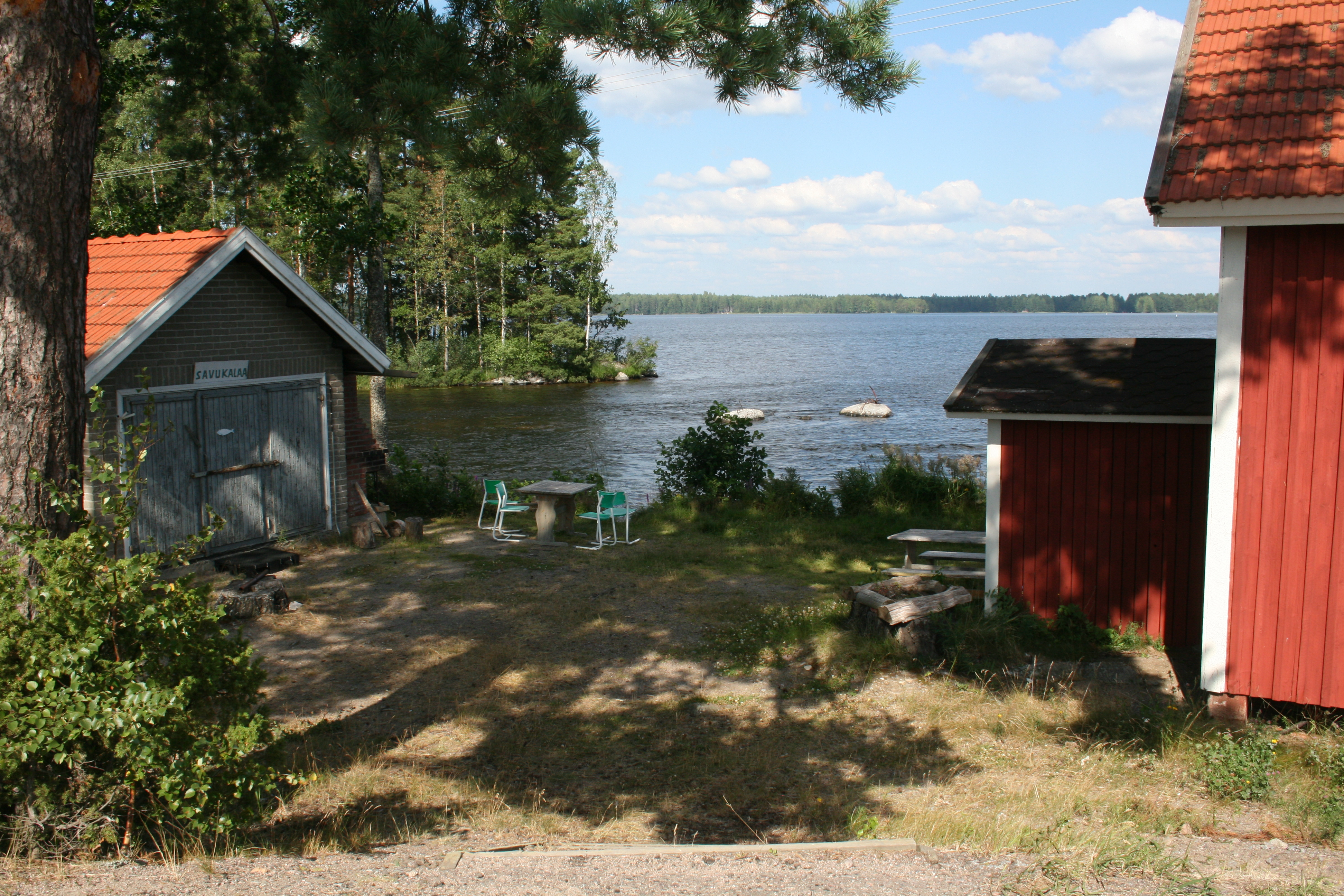 Southern part of Lake Lahnavesi in Mäntyharju, Finland, is called Vihannanvesi, witch is seen from Miekankoski.